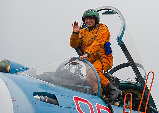 The 279th separate naval fighter regiment (Murmansk Region)